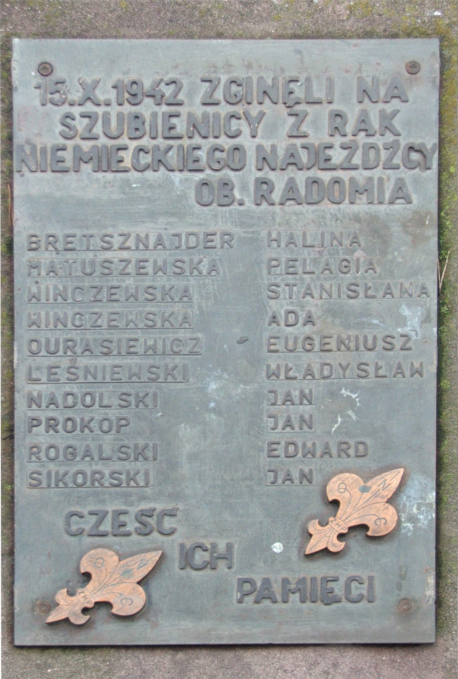 The plaque commemorates Polish victims of mass execution performed by Nazi Germans on 15th Oct. 1942.